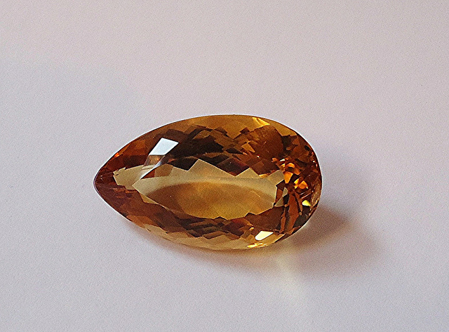 Length: 23 mm.